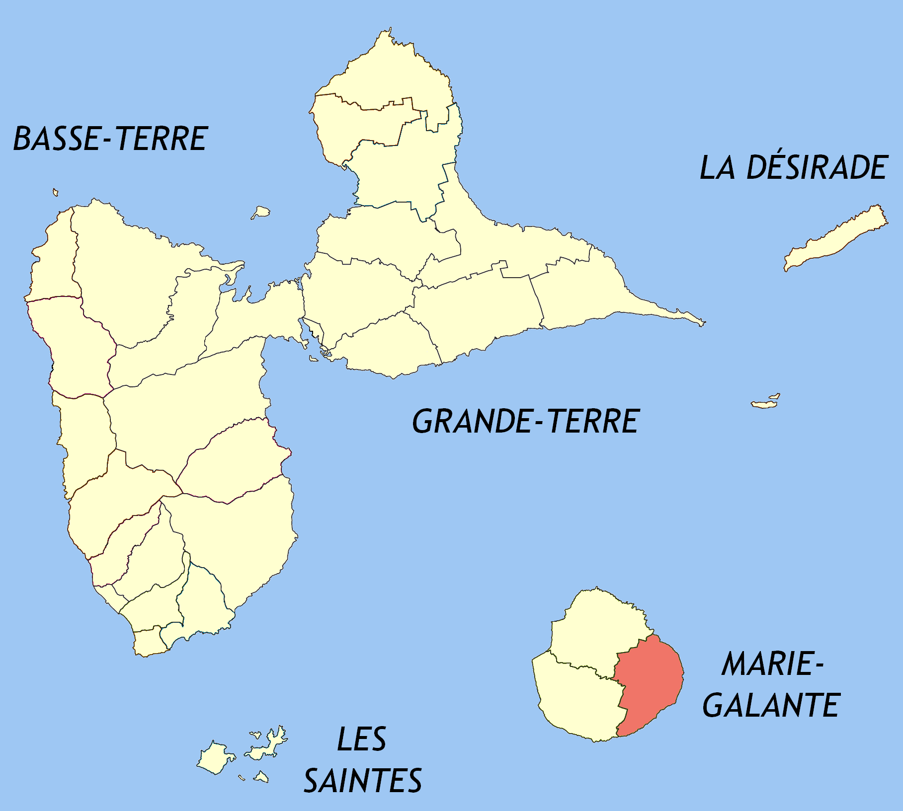 Created map myself.